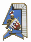 Insignia Patch for 41st Tactical Squadron (known as 41.ELT - 41 Eskadra Lotnictwa Taktycznego in Poland)